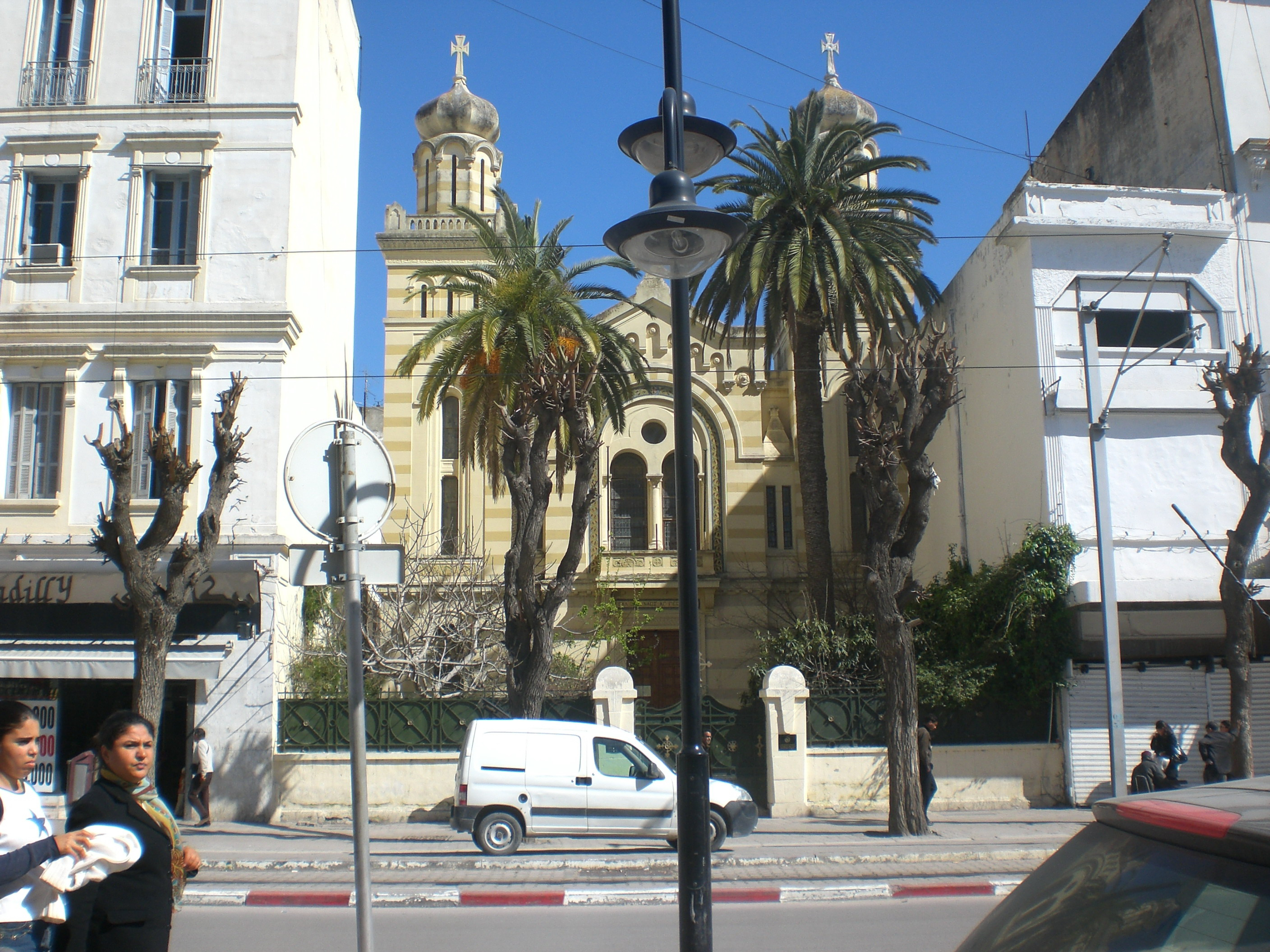 The orthodox church in Tunis